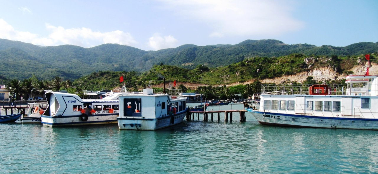 Vinh Hy Beach, Ninh Thuan province, Vietnam'2012. Ships for tourists.